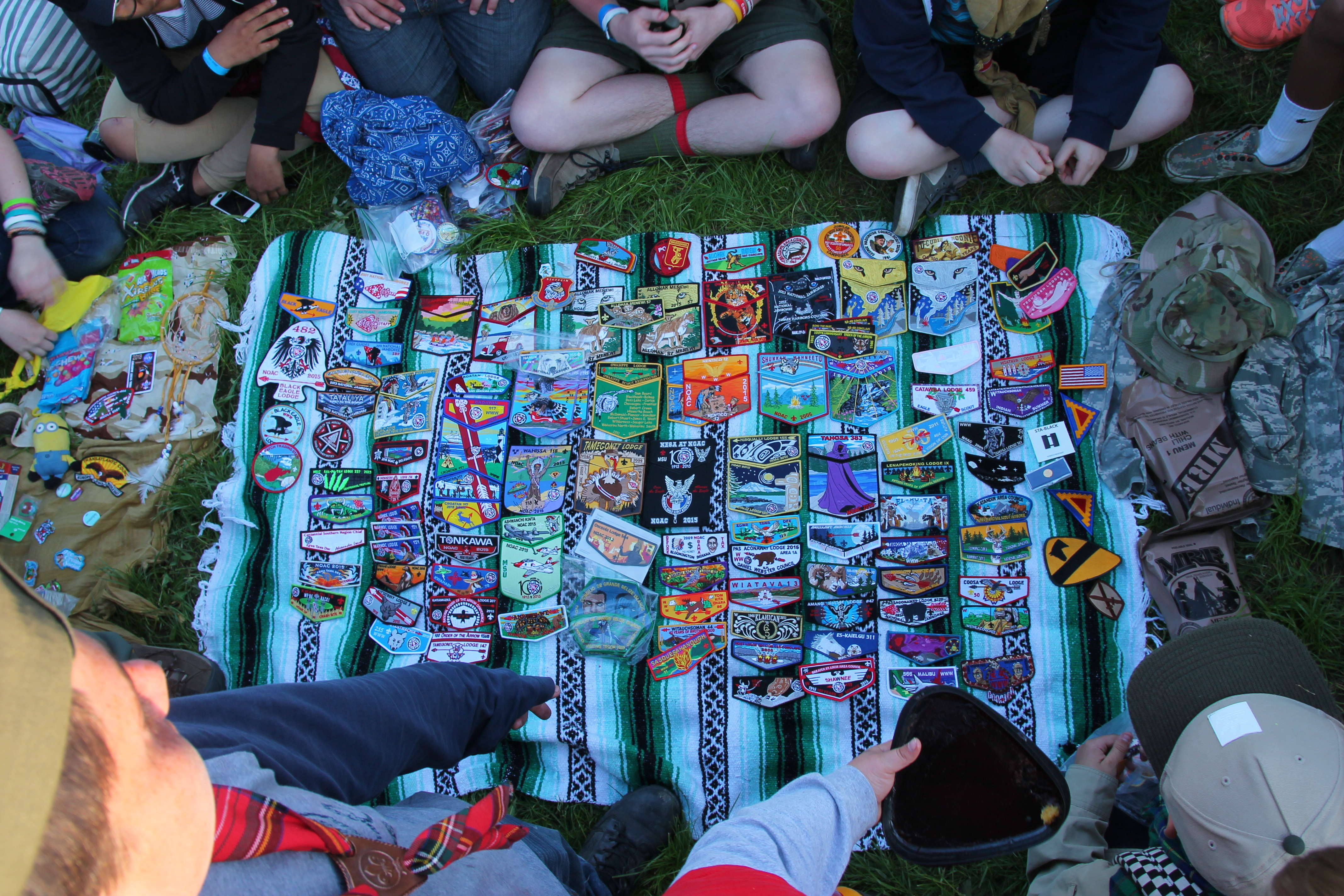 Intercamp 2016 (13.–16. 5. 2016), Josefov fortress, Jaroměře, Czech Republic, interchange of US scout badges